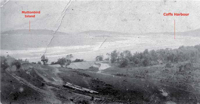 British Australian Timber Company